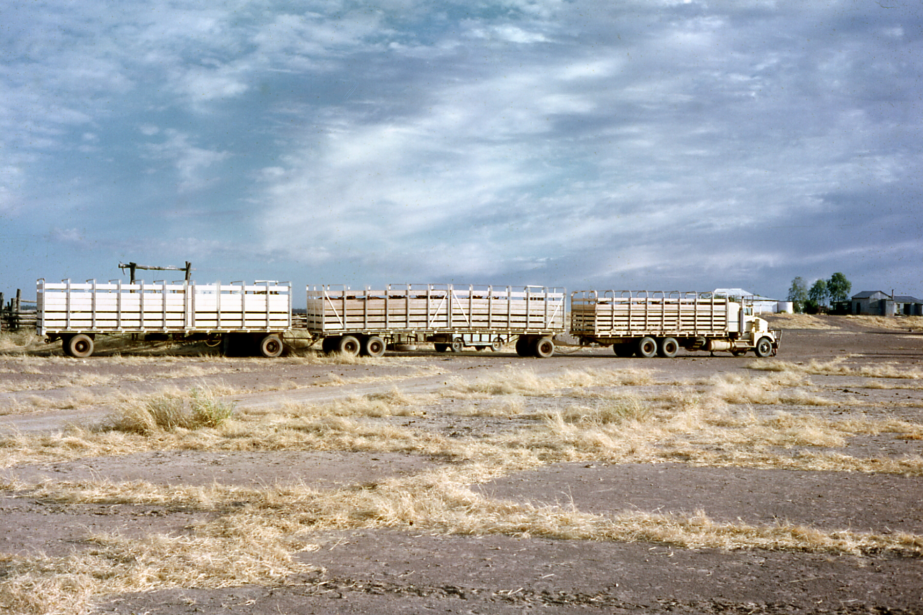 One of the early road trains to operate in the Kimberley. This one is loading cattle at Louisa Downs Station transportation to the Derby meat works. All roads in the area at the time were dirt and were closed for weeks at a time during the wet season